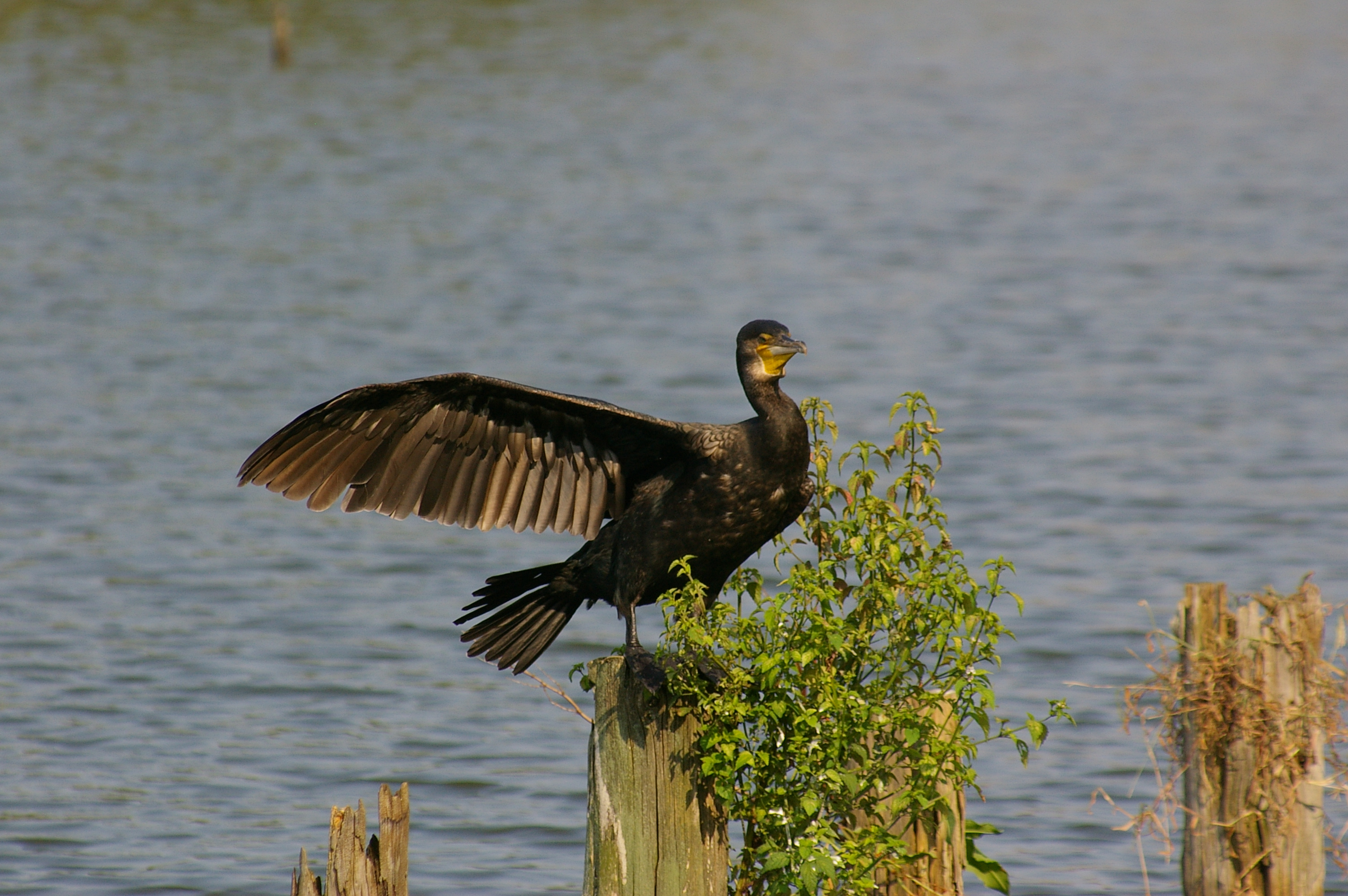 Phalacrocorax carbo in Mizumoto-kōen, Katsushika, Tokyo.